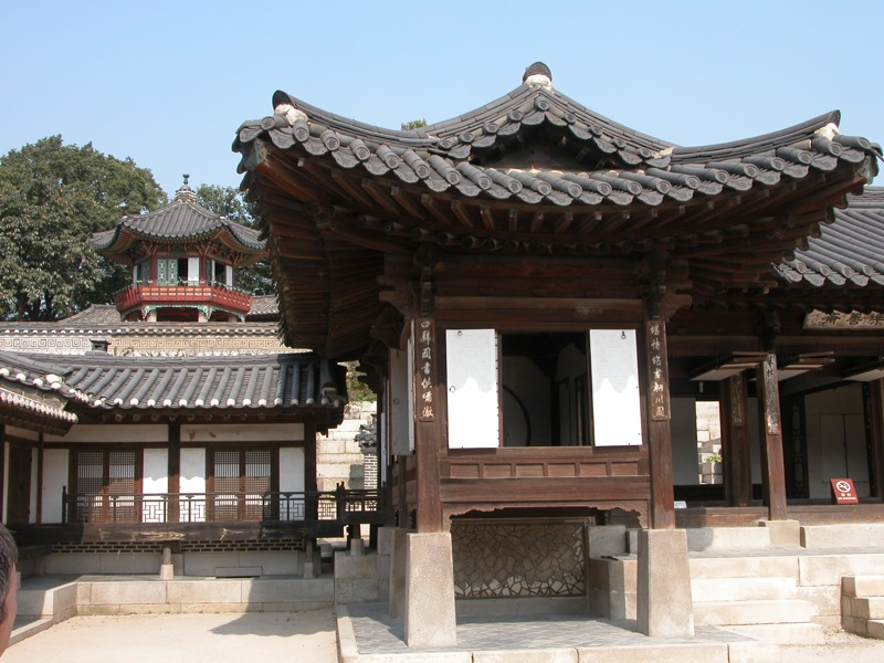 Naksonjae which was the home to last of the Korea royal family.